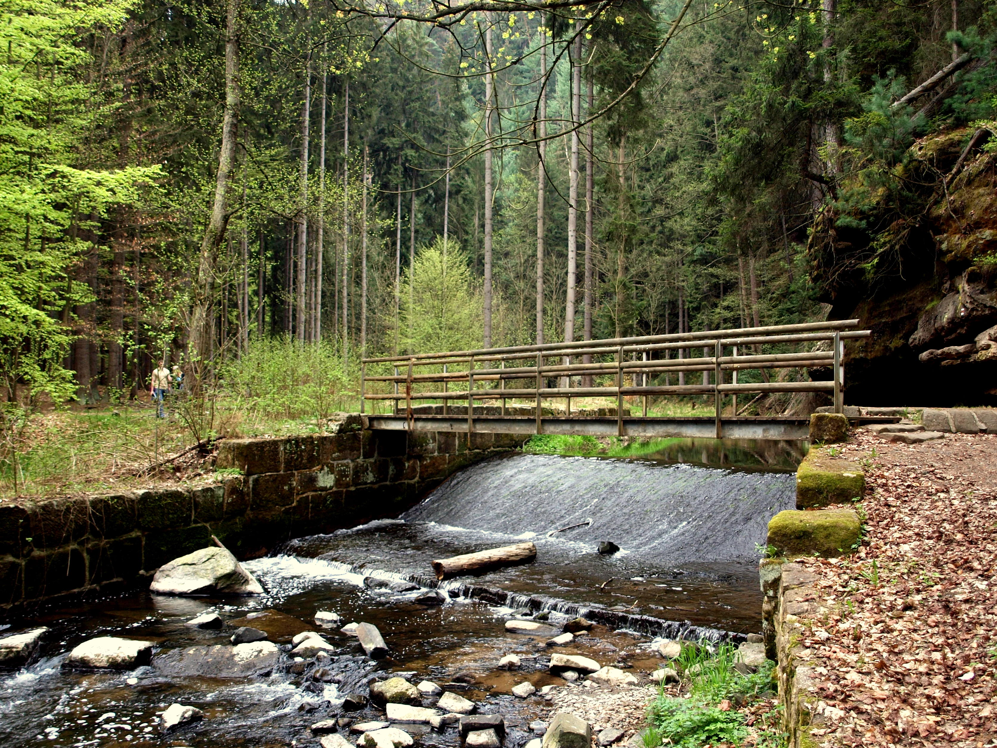 Chřibská Kamenice, Czech republic